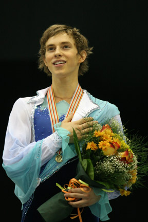 Adam Rippon during the playing of the United States national anthem during the men's medal ceremony at the 2008 World Junior Championships.